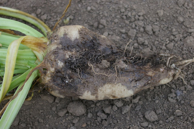 A picture of root rot of sugarbeet, a disease of sugarbeet caused by Rhizoctonia solani. Photo offerd by Fk. in 2000??. in Japan.